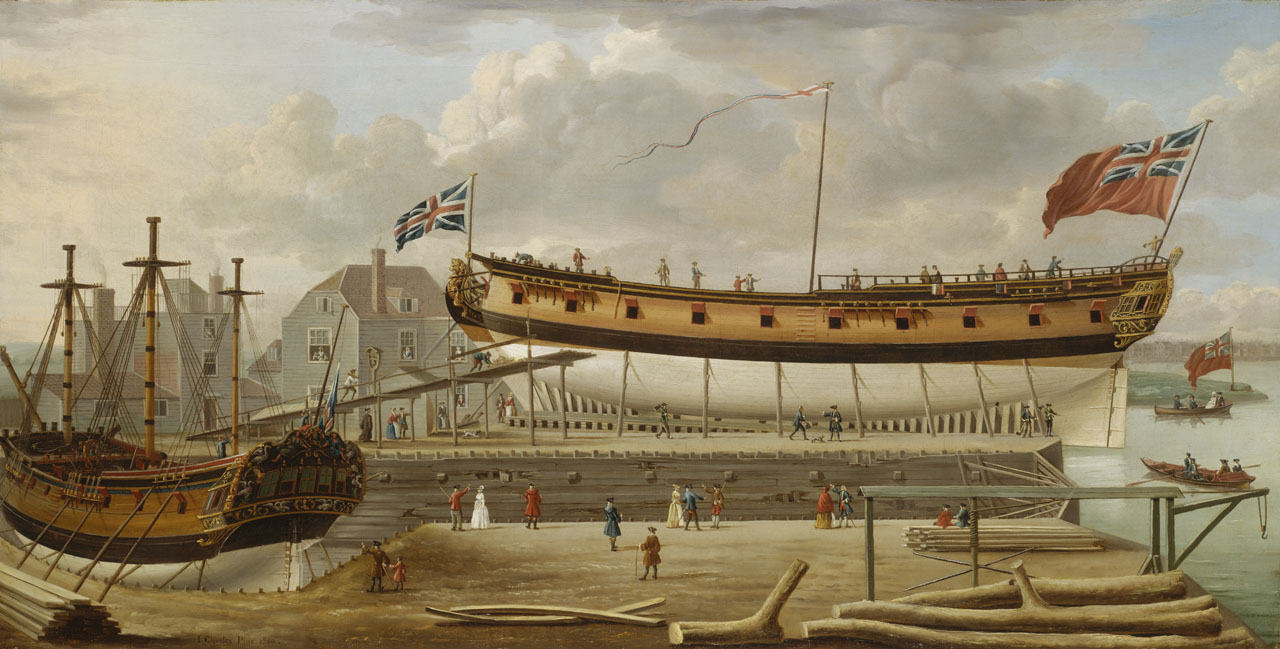 The exact location of the shipyard in this painting is unclear but it may be on the south bank of the Thames at Rotherhithe. The ship in the foreground ready for launching is a 24-gun sloop of war, much in use by the Navy for patrolling around coasts in peace and war, and there is another ship in dry-dock to the left under repair with only the lower masts standing. In the foreground to the right some tree trunks are piled ready for use for shipbuilding and behind them two figures sit on ready-sawn planks. In the right forergound there is a small capstan-powered crane overhanging the edge of the wharf. The inclusion of many figures informs the painting and the artist has chosen to include a variety of social types and activities at the dockyard. Several workmen can be seen working on scaffolding under the ship, and there are a number of figures on its deck. A small figure to the far right, which may be a child, appears to be balancing precariously on the rail, one hand on the ensign staff while the other waves a hat. A man to the left holds out his hand in a gesture of warning. Figures appear at all the upstairs windows of the building to the centre left, which may be the master shipwright's house. The sixth-rate is probably about to be launched and flies a Union jack at the bow, a naval pendant on a temporary midships flagmast and a red ensign at the stern.[1] ↑ NMM